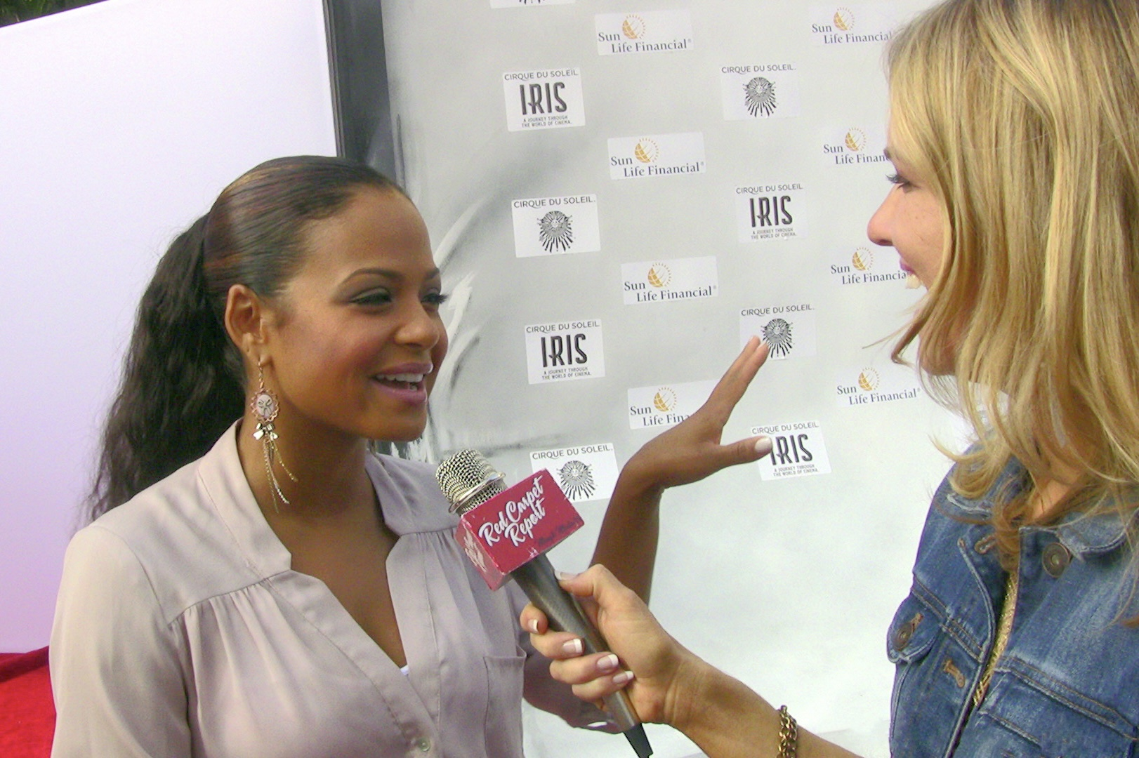 Christina Milian at the World Premiere of IRIS by Cirque du Soleil 2011.